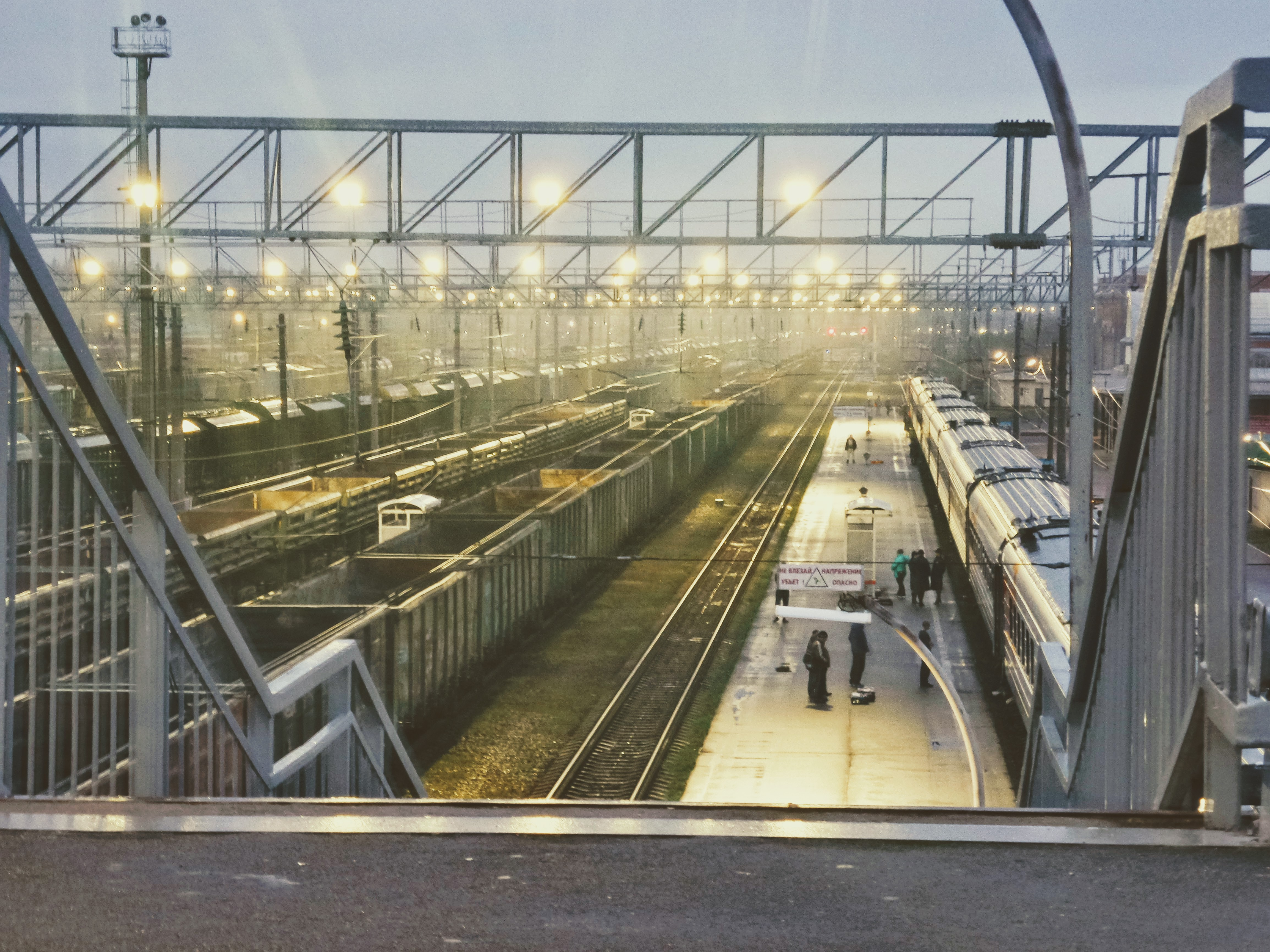 View of trains from the footbridge, 2017. Svir railroad station.